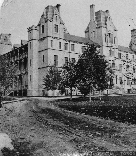 Toronto General Hospital, then located at Gerrard and Sumach Streets (Toronto, Canada)